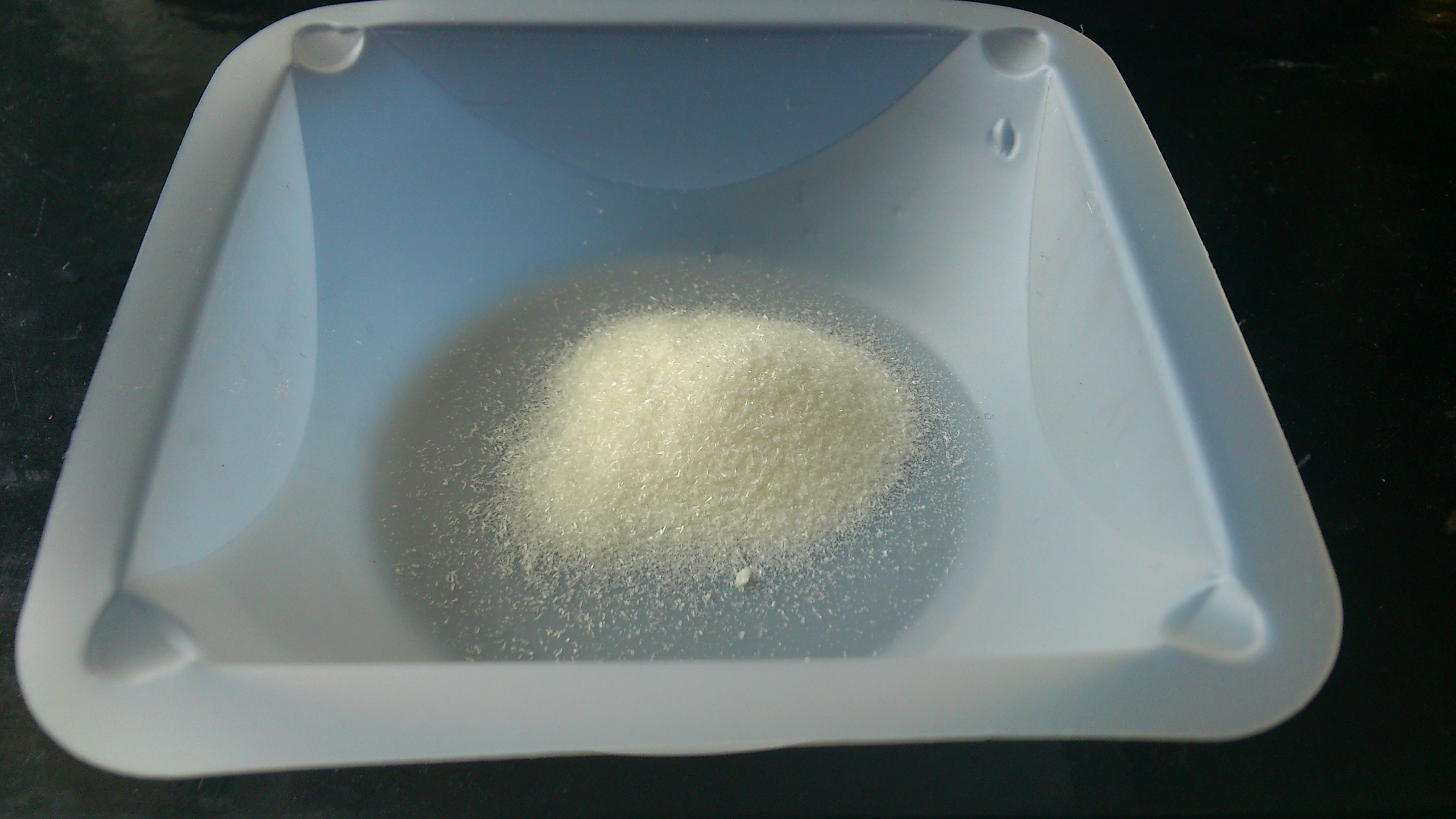 Sodium ascorbate powder